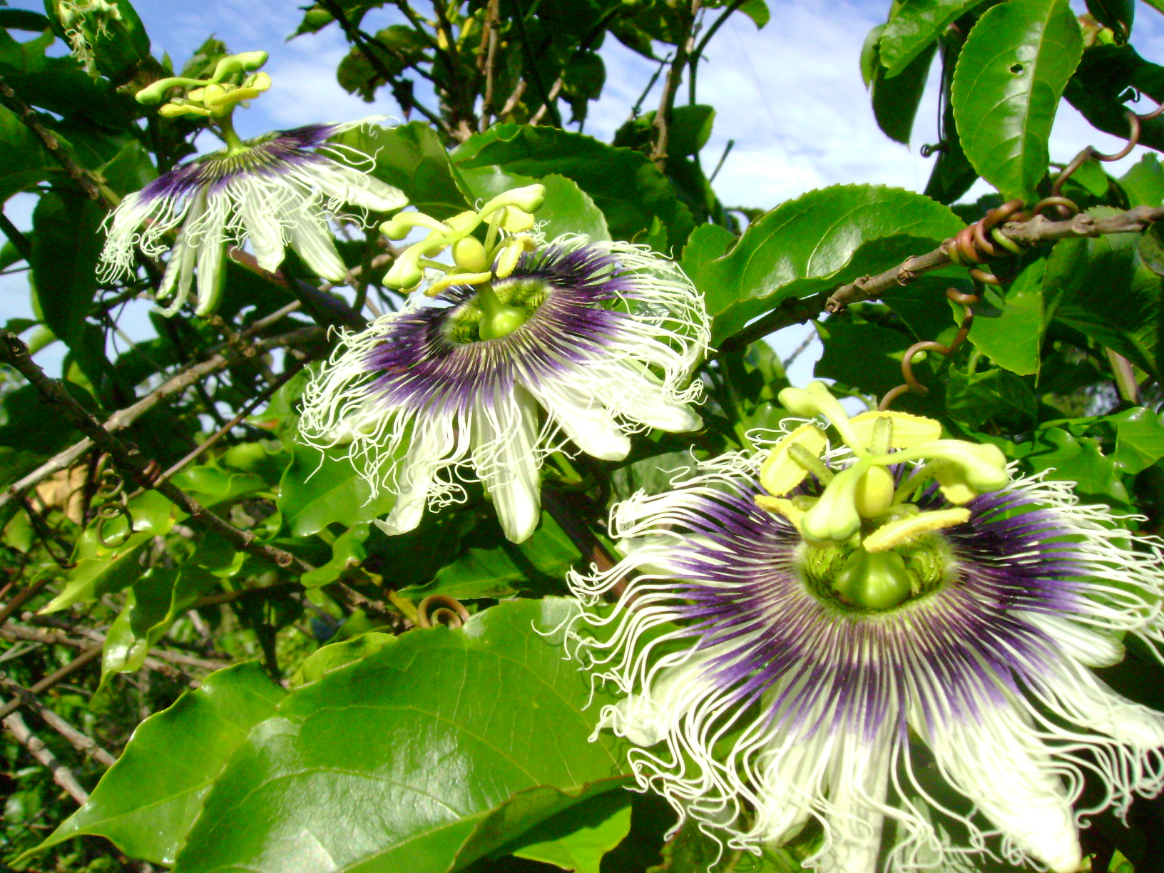 Passion fruit flowers on the coffee plantation